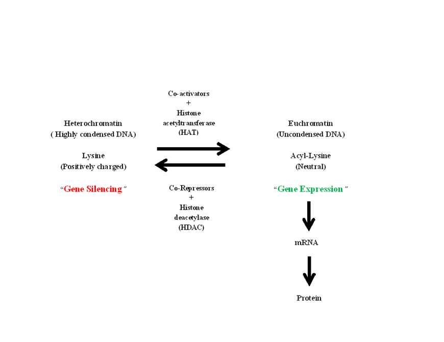 Schematic showing histone acetyltransferases’ role in gene transcription